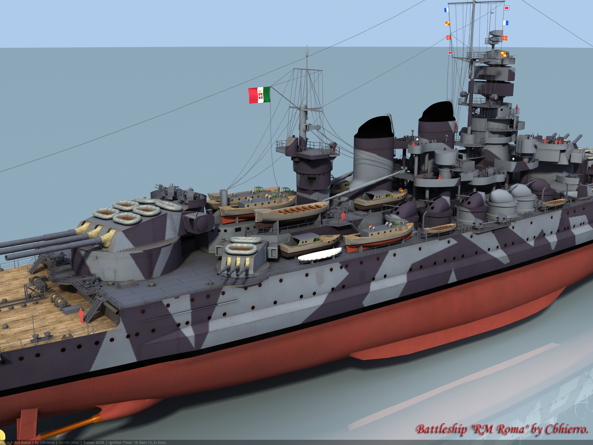 a 3D rendering of the different views of the Regia Marina Roma battleship